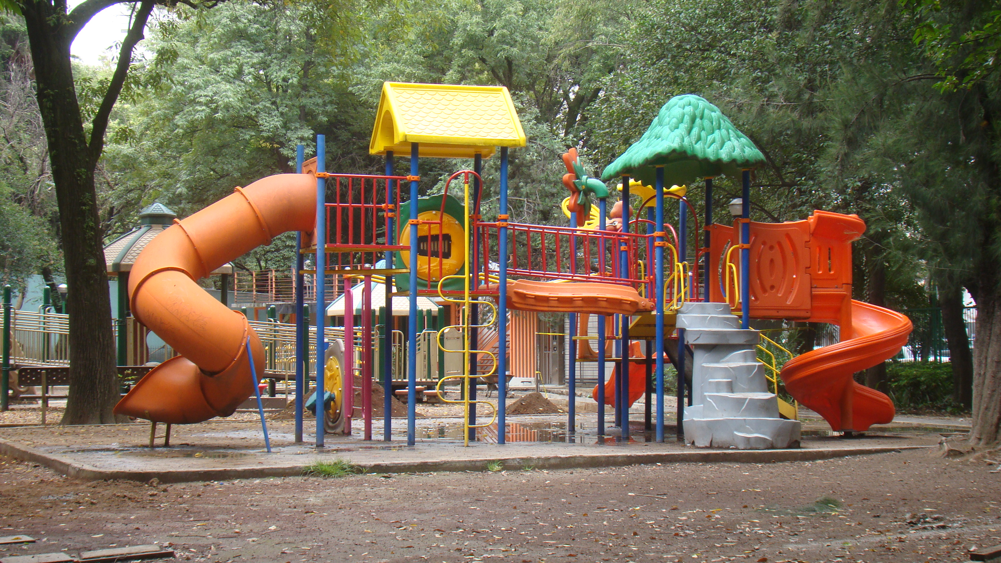 Playground at Park Spain, Mexico City